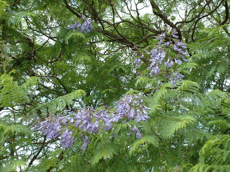 Jacaranda foliage and blossom. Identified by comparison with images in theFloridata data base and by discussion with local informants. Probably Jacaranda acutifolia but this is still to be checked.